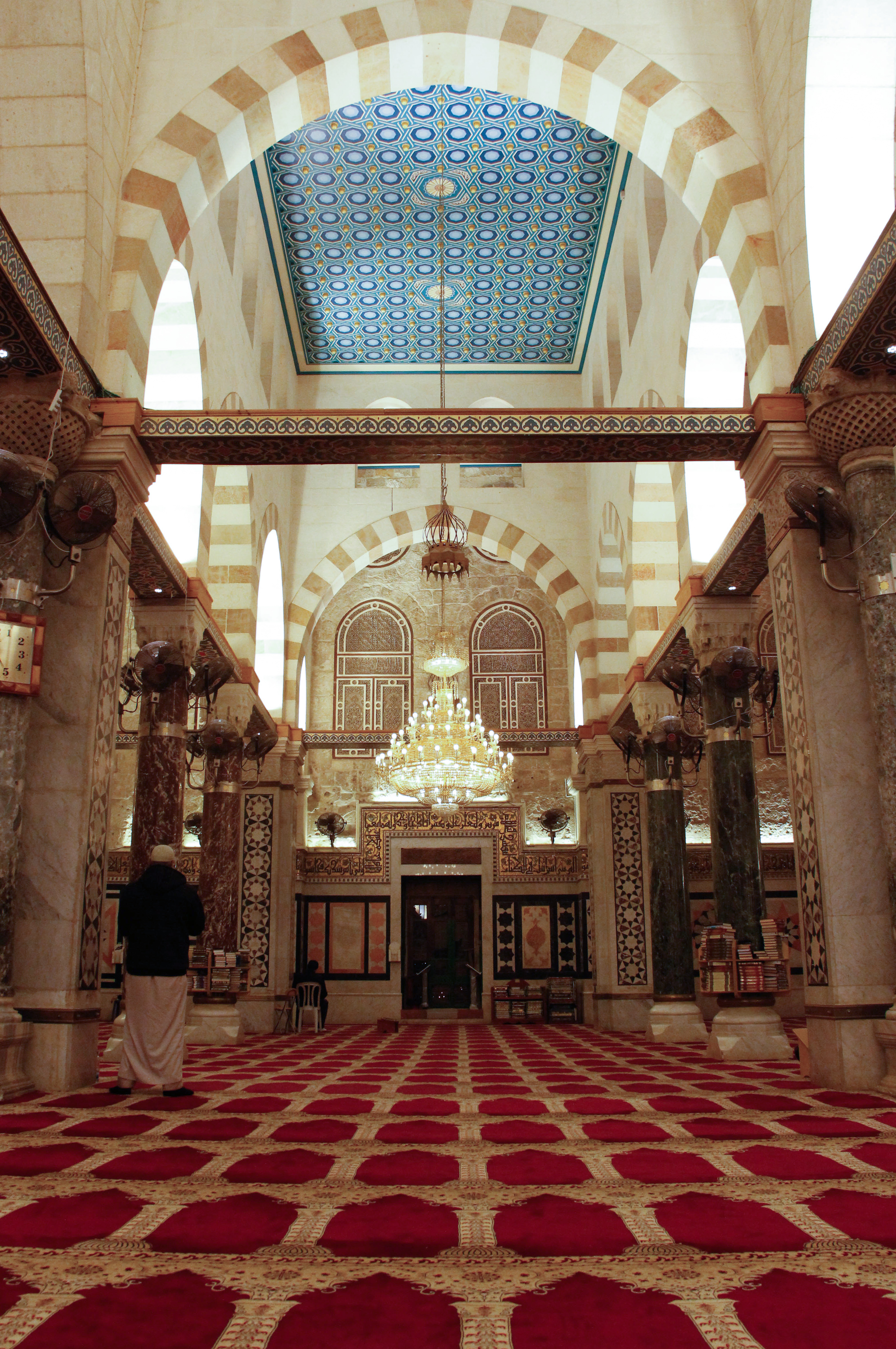 From inside the tribal mosque - Al-Aqsa Mosque